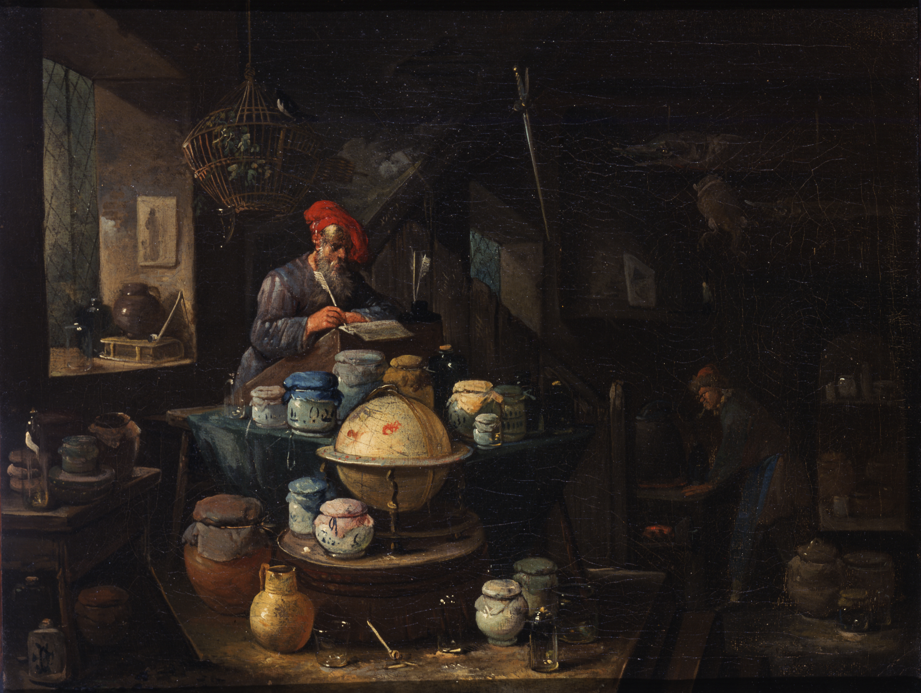 An Alchemist in his Study Egbert van Heemskerk I A gray-bearded alchemist facing right with red cap writes with quill at desk; in front on tables and floor are many different jars, fabric covers tied with string; also a celestial globe, glass jars and a pipe. Illumination is from a window at left; from ceiling hangs, left to right, a birdcage with green vine, bird sitting outside cage; a hanging sword; and three fantastical creatures. In background a man attends a furnace.